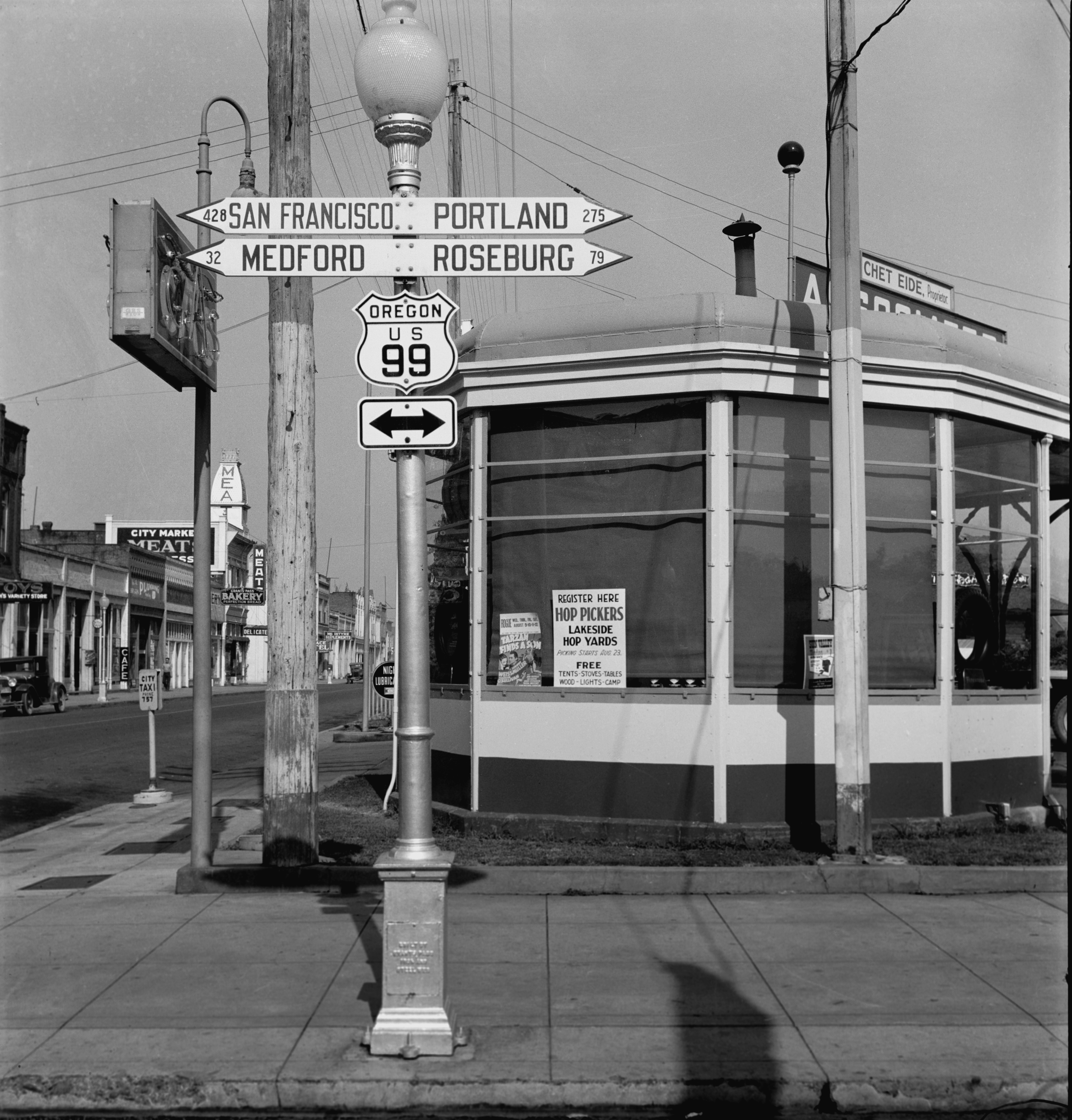 "Sign of service station, U.S. 99. Hop pickers are wanted for four big growers of the area three weeks before opening season. They also advertise in newspapers including San Francisco newspapers, 450 miles away. Josephine County, Oregon" (1939). Location is Grants Pass, Oregon, at Sixth Street looking down G Street per discussion